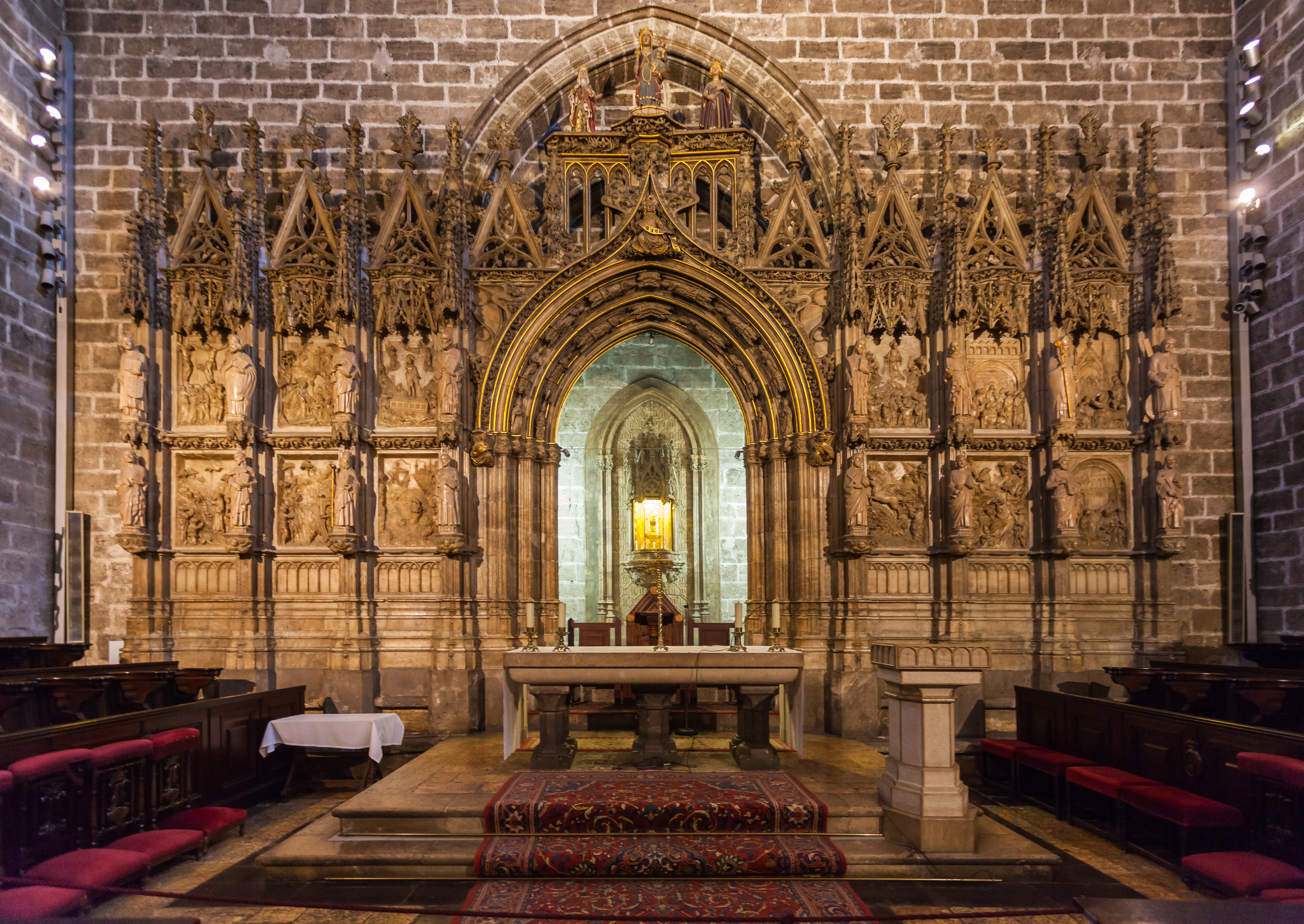 Chapel of the Holy Chalice, Valencia Cathedral, Valencia, Spain